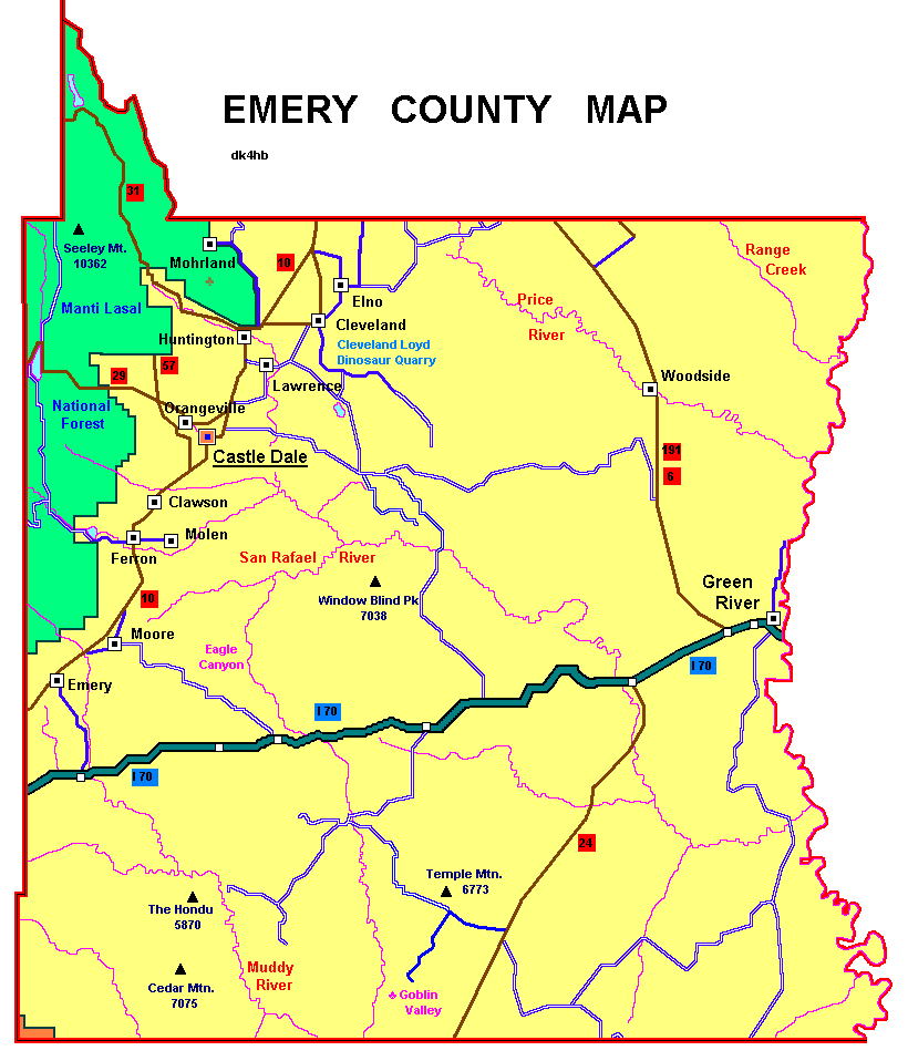 Emery County (UT),Detail, selfmade graphic by R.Blauert Dk4hb